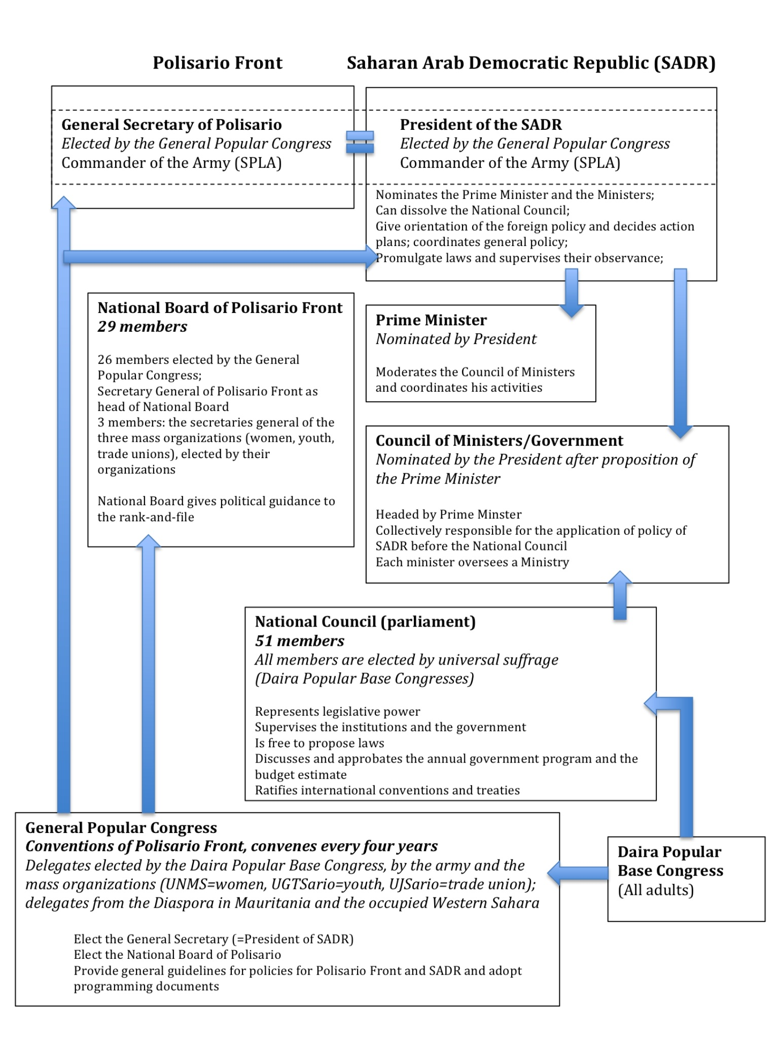 SADR political system